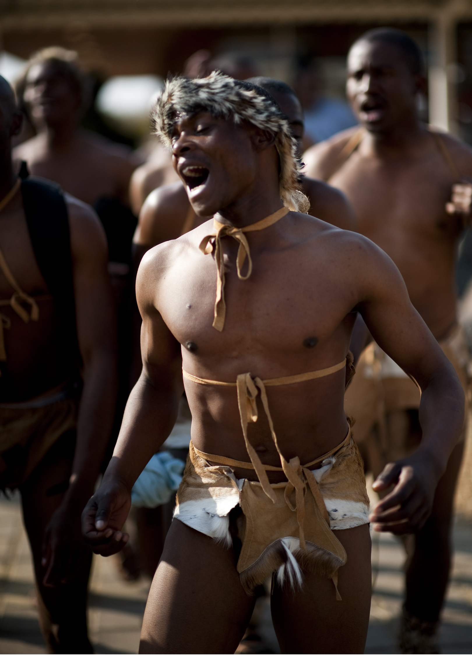 U.S. service members prepare to watch a dance performance by Soldiers of the Botswana Defense Force dressed in ceremonial garb at Thebephatshwa Air Base, in the Republic of Botswana, Africa Aug. 5, 2012. Cultural day allowed Soldiers, Marines, Airmen, and Sailors operating in Southern Accord 2012 to interact with members of the Botswana Defense Force and local civilians in the community. (U.S. Army Africa photo by Sgt. Adam Fischman) To learn more about U.S. Army Africa visit our official website at Official Twitter Feed: Official Vimeo video channel: Join the U.S. Army Africa conversation on Facebook